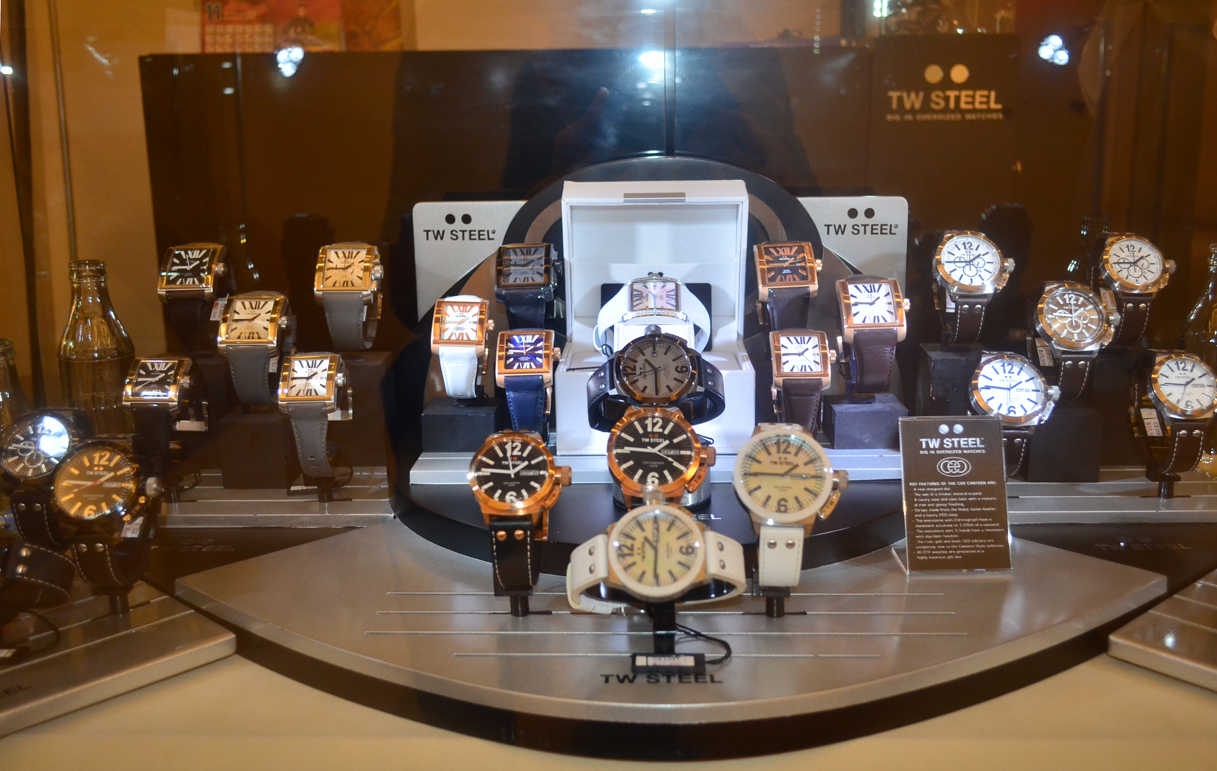 TW STEEL in Thailand